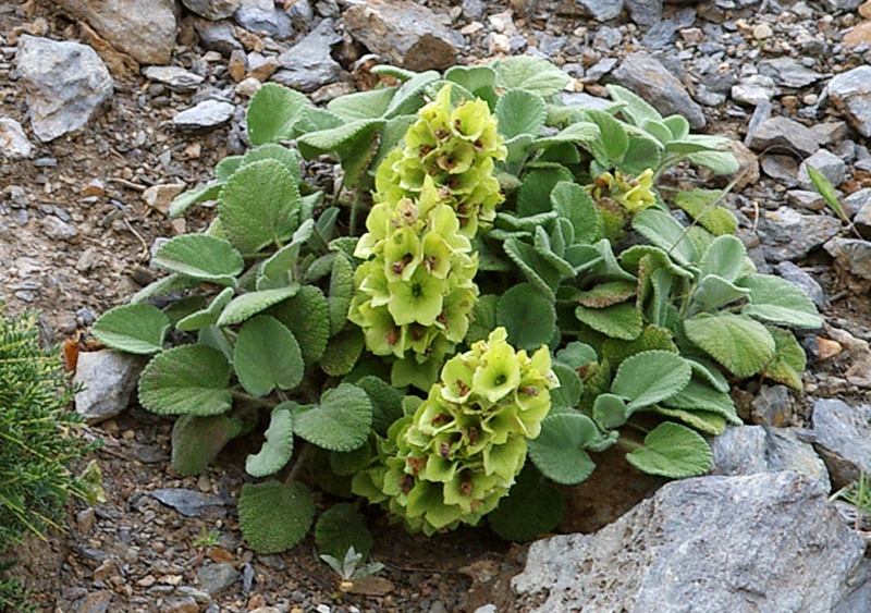 Black salvia (Salvia absconditiflora), endemic to southern Turkey.